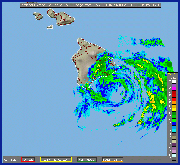 Rainfall radar showing Tropical Storm Iselle approaching Hawaii 8 August 2014.